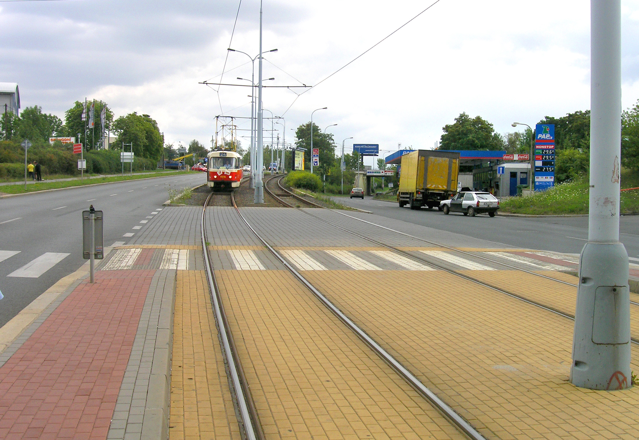 Černokostelecá street with tram track at Malešice, Prague